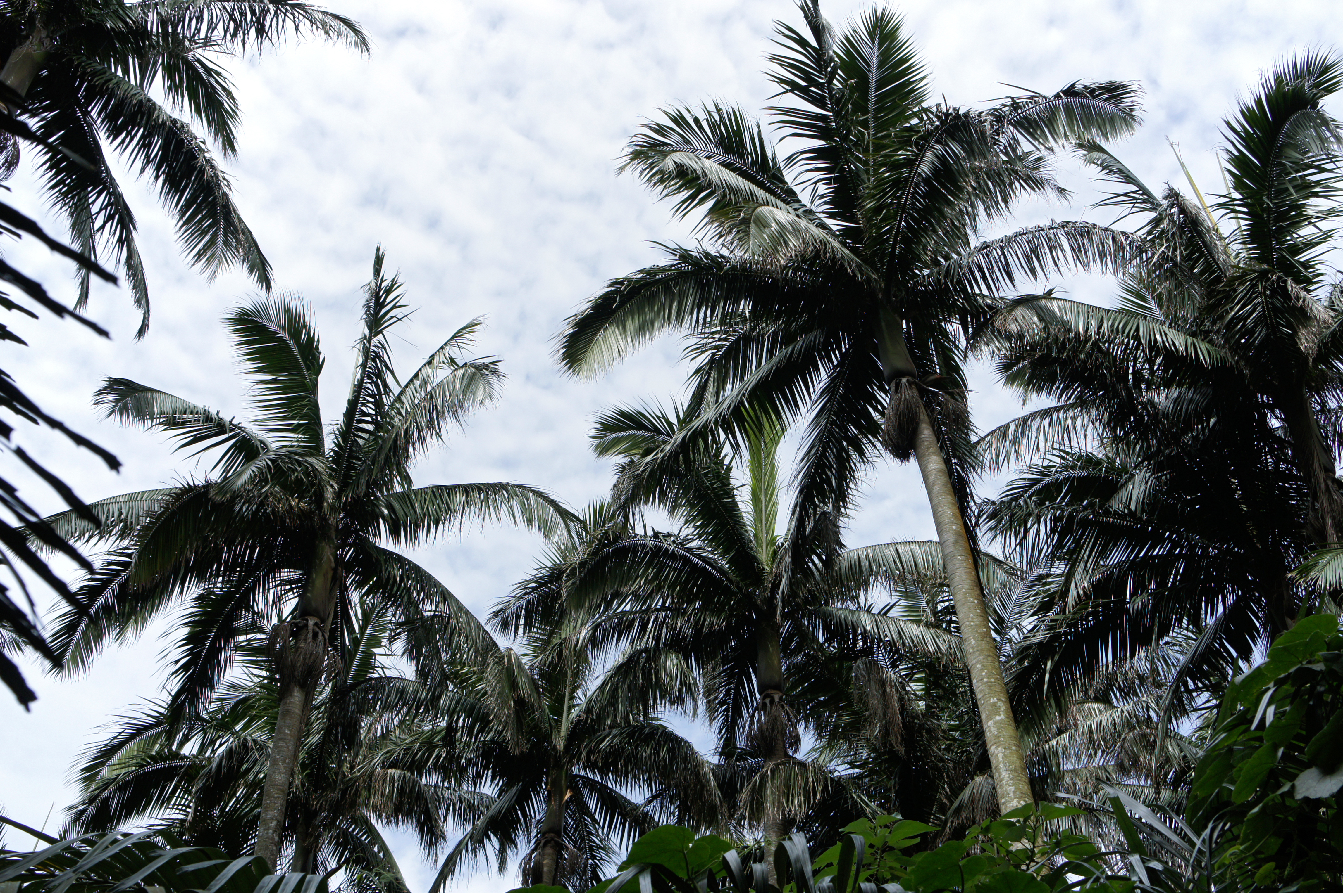 Native forest of Satake palm trees, Yonehara, Ishigaki, Okinawa prefecture, Japan.